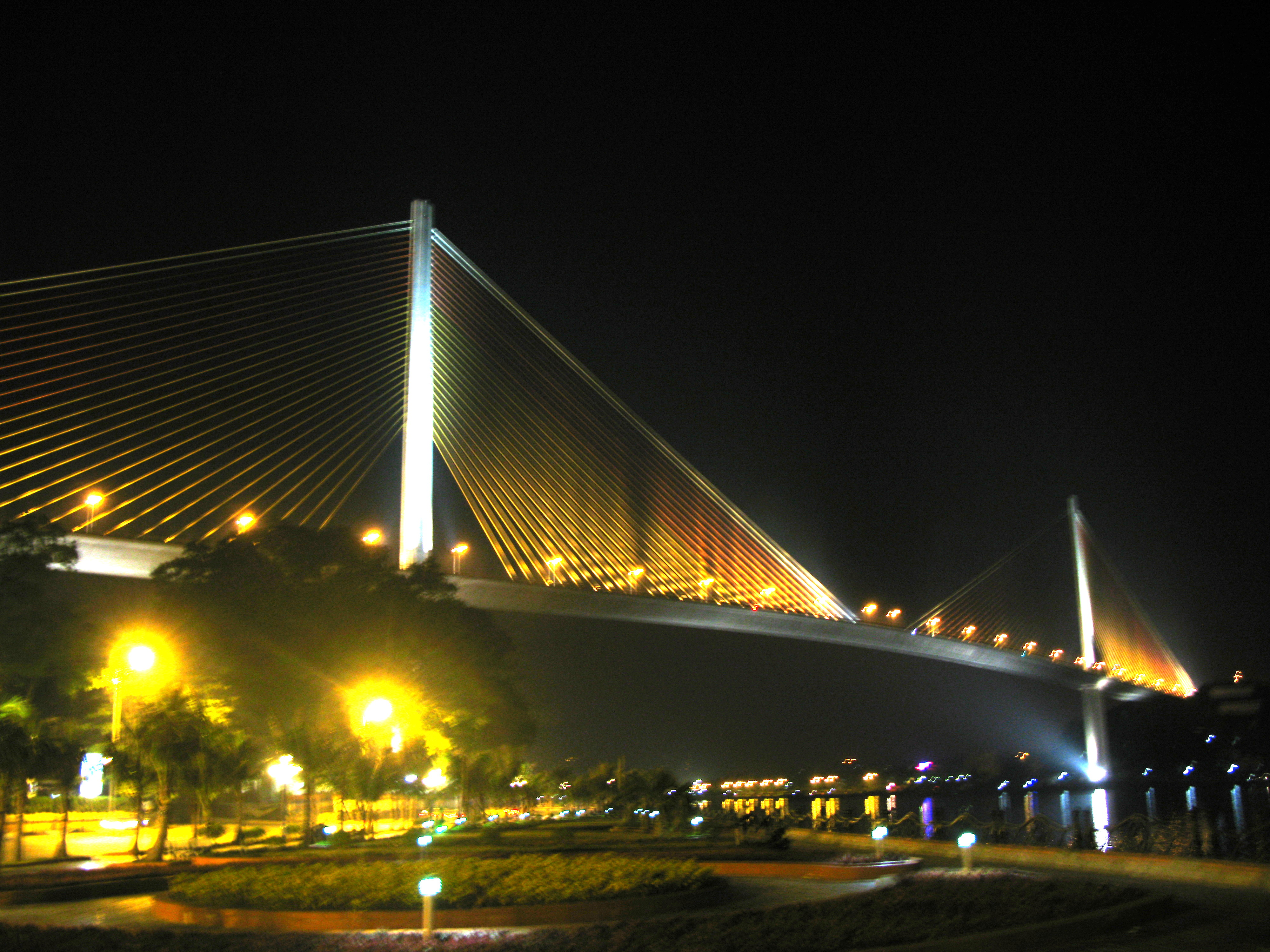 Bãi Cháy Bridge in Hạ Long City, Quảng Ninh Province, Việt Nam